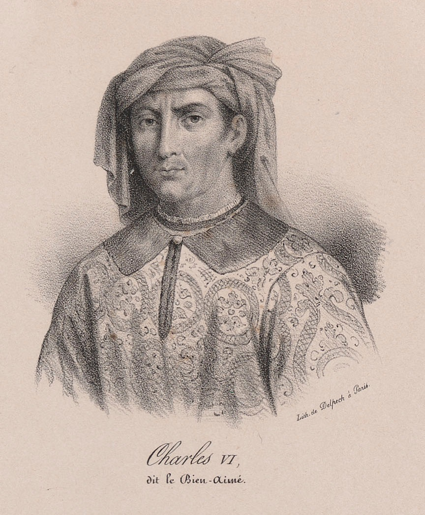 Charles VI of France (1368-1422)